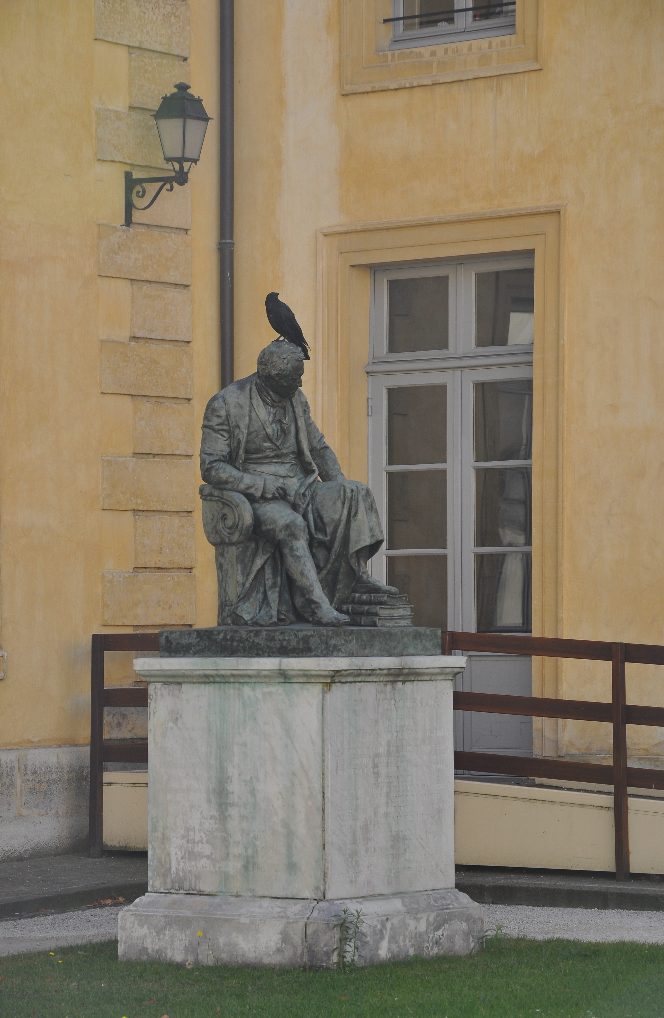 Courtyard Broussais of the cloister of Val-de-Grâce in the 5th arrondissement of Paris in France.